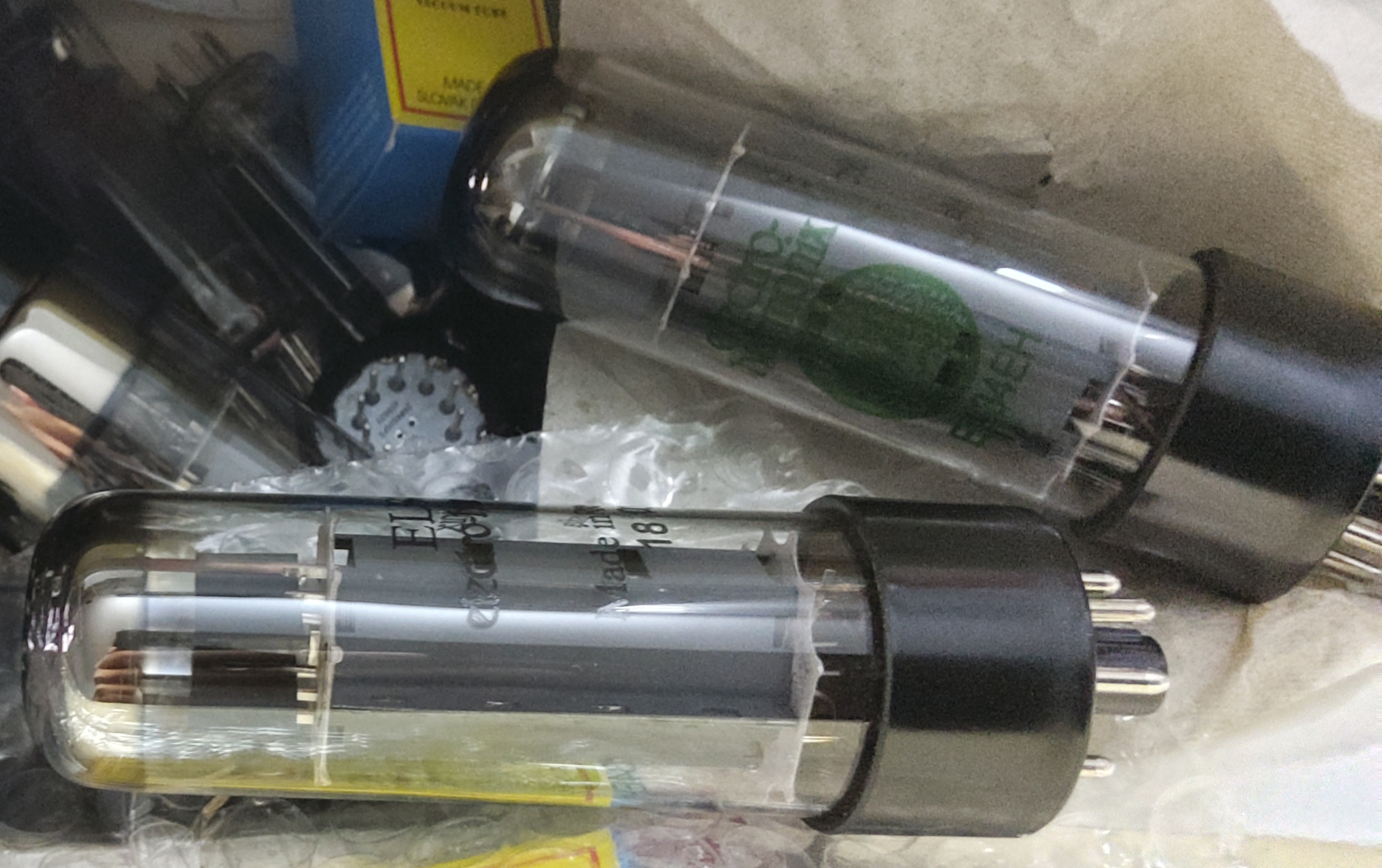 A pair of EH EL34 made in 2018.